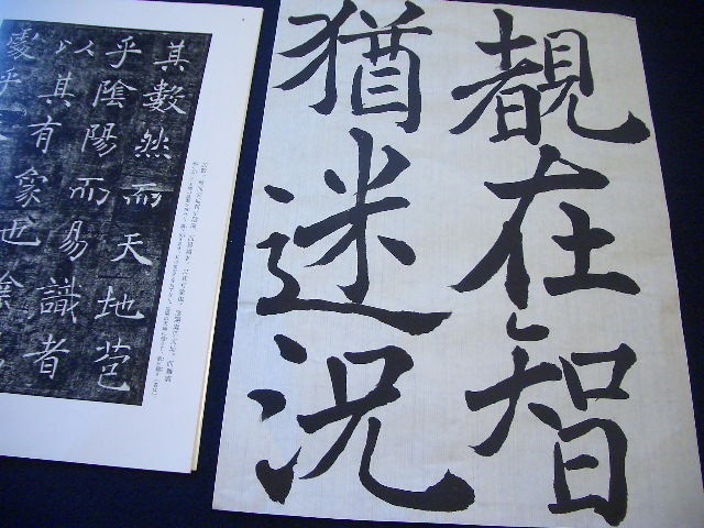 Japanese CalligraphyJapanese calligraphy / 楷書(kaisyo)